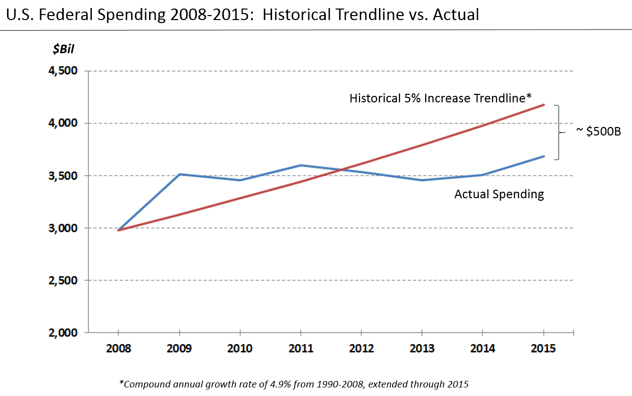 Line chart comparing actual federal spending 2008-2015 versus a historical trend line based on the average annual increase from 1990-2008 of about 5%.